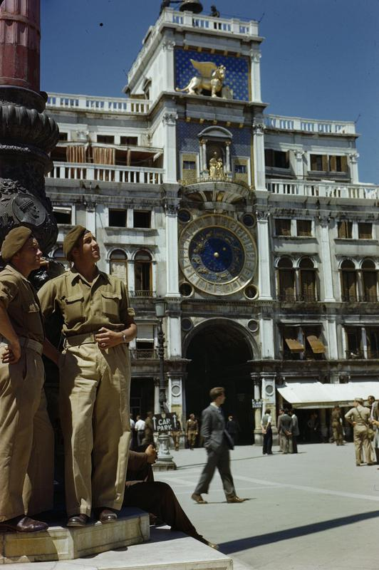 Soldiers of the British Army on Leave in Venice, Italy, June 1945 Driver C W (Bill) Hoe of Mansfield, Notts, and Driver F G (Freddie) Talbot of Brentford, Middlesex, both of whom have been overseas for over 2 years, in the Piazza San Marco. In the background is the famous clock which tells the time, season, month and day of the year.